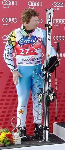 Canadian skier Benjamin Thomsen on podium of the World Cup race in Sochi, Rosa Khutor, february 2012